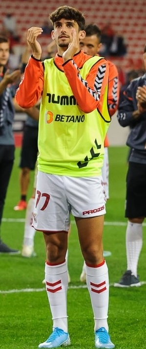 Francisco Trincão with SC Braga after an Europa League qualifying game against FC Spartak Moscow.